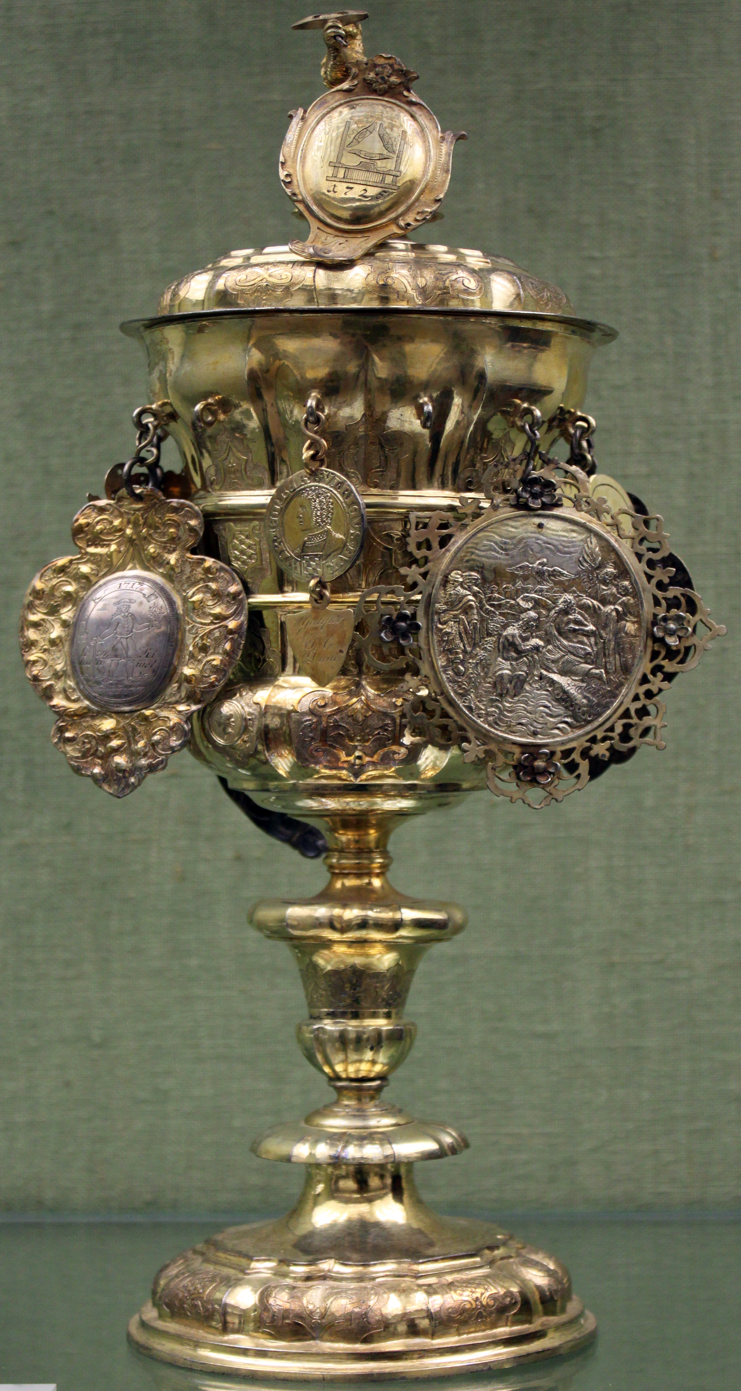 Welcome cup of the Nuremberg cloth makers and weavers, 1725; Germanic National Museum in Nuremberg